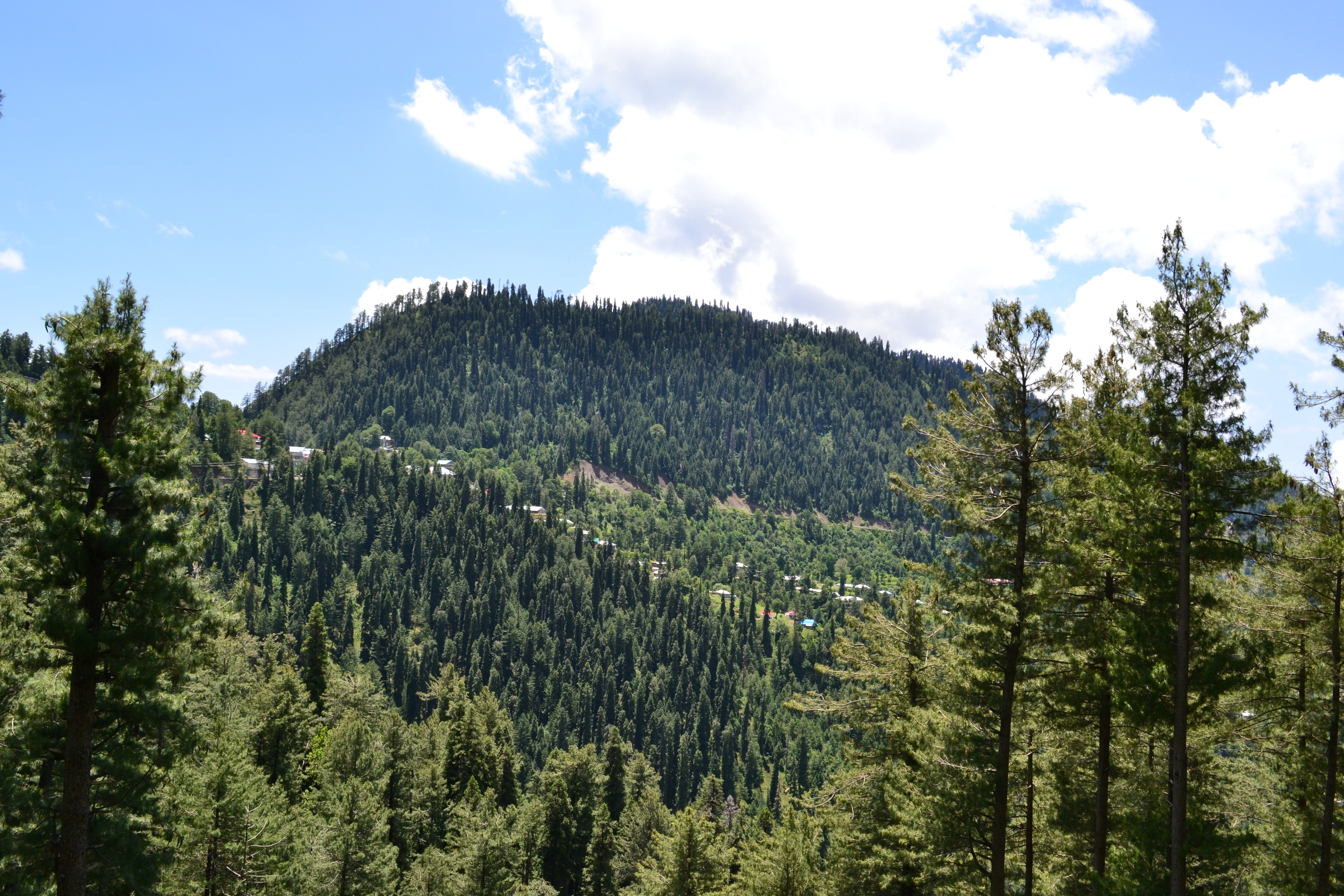 Donga View